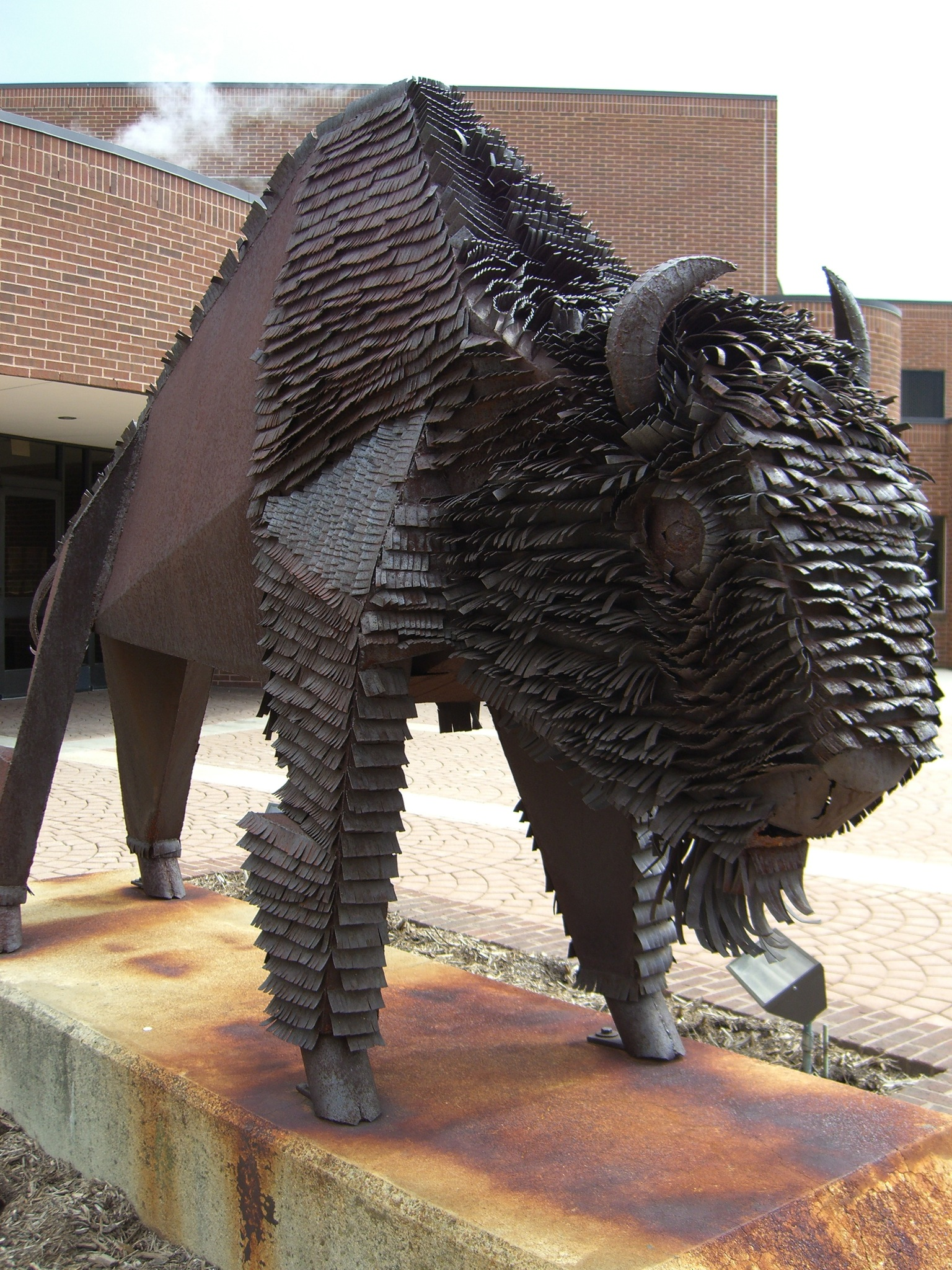 In front of Field House.